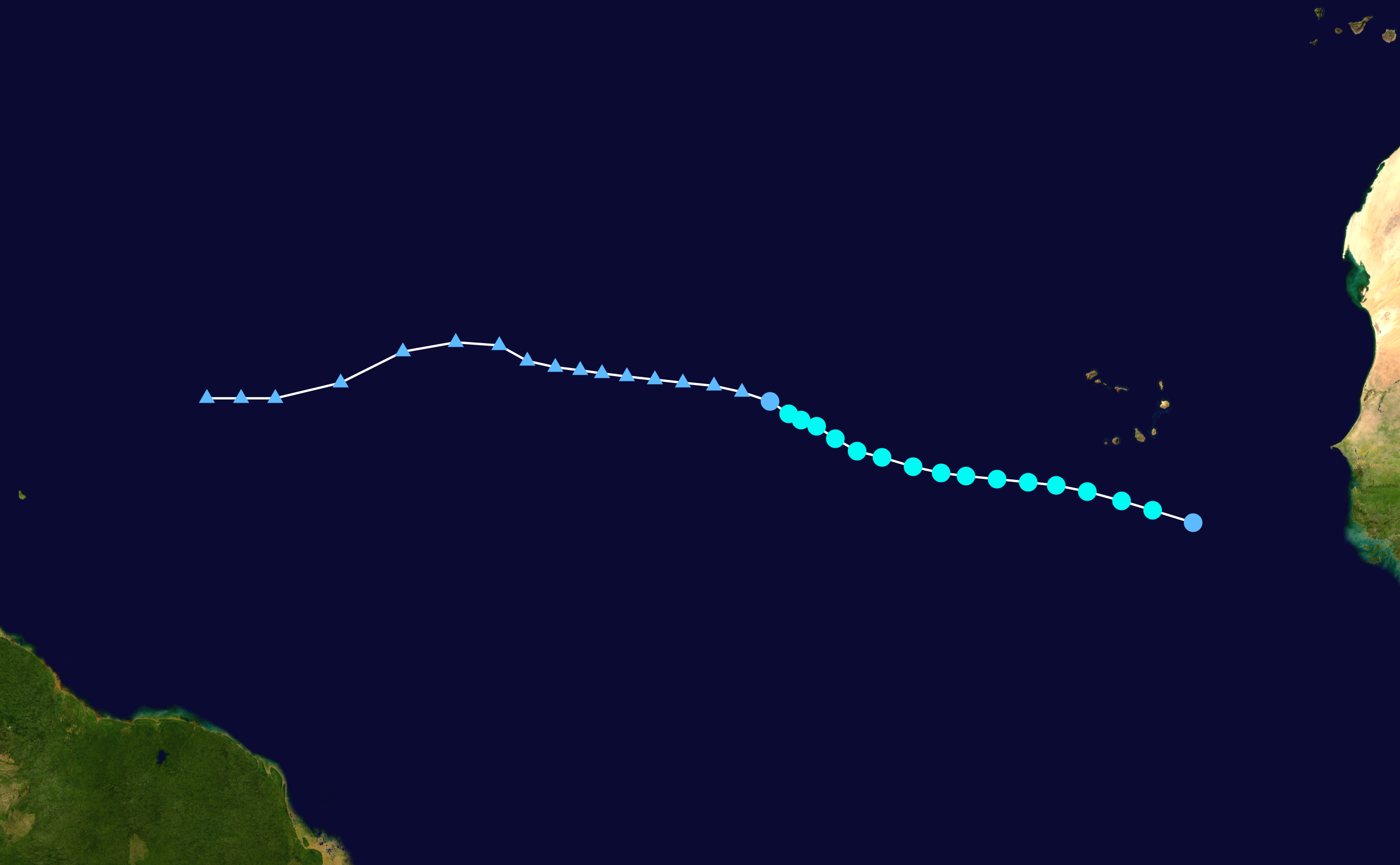 Track map of Tropical Storm Josephine of the 2008 Atlantic hurricane season. The points show the location of the storm at 6-hour intervals. The colour represents the storm's maximum sustained wind speeds as classified in the Saffir–Simpson scale (see below), and the shape of the data points represent the nature of the storm, according to the legend below. Saffir–Simpson scale Tropical depression≤38 mph≤62 km/h Category 3111–129 mph178–208 km/h Tropical storm39–73 mph63–118 km/h Category 4130–156 mph209–251 km/h Category 174–95 mph119–153 km/h Category 5≥157 mph≥252 km/h Category 296–110 mph154–177 km/h Unknown Storm type Tropical cyclone Subtropical cyclone Extratropical cyclone / Remnant low / Tropical disturbance / Monsoon depression